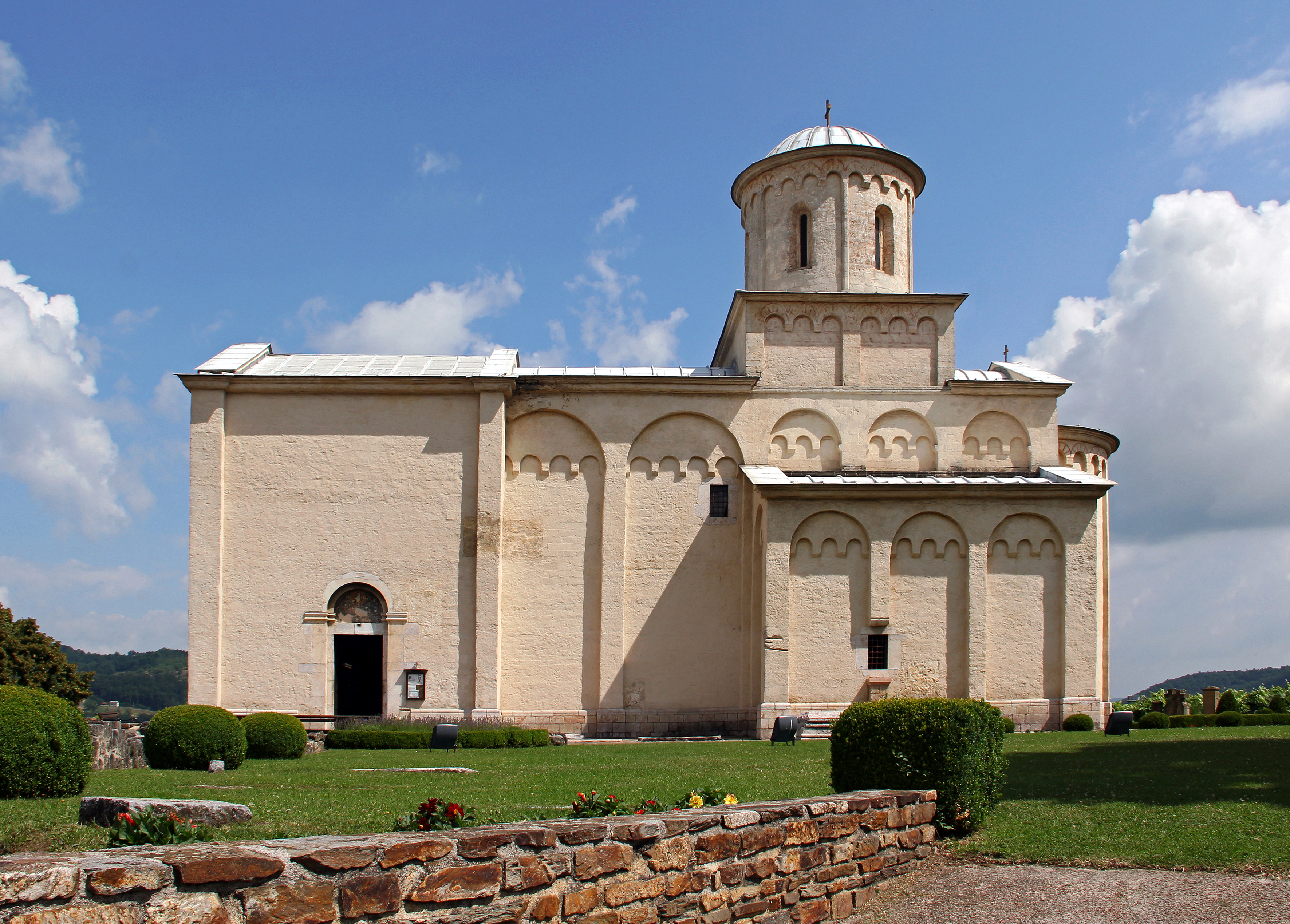 The Church of St. Achillius or the Arilje Monastery is a Serbian Orthodox church in Arilje, western Serbia. The church was built in 1296 by Serbian King Stefan Dragutin.